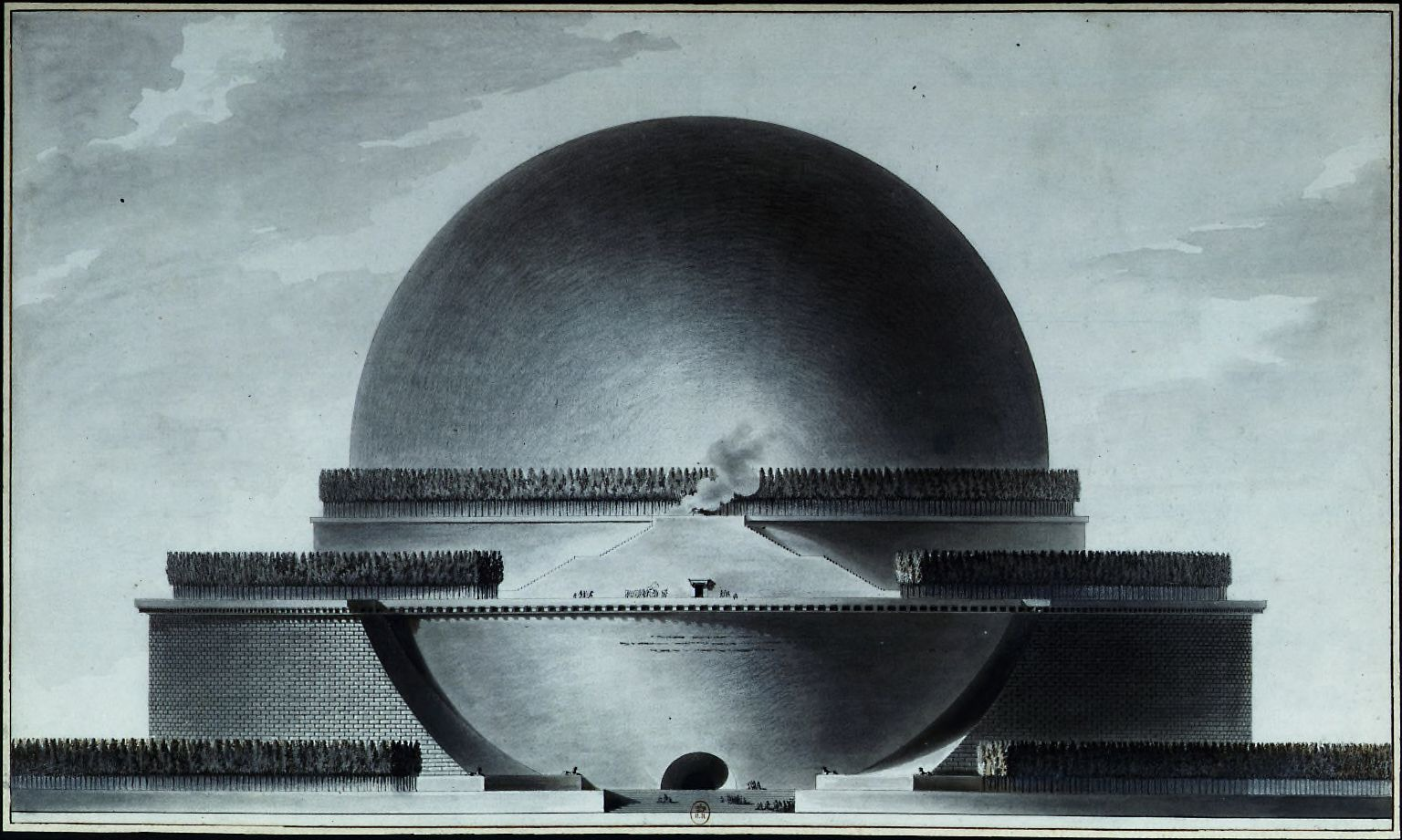 Étienne-Louis Boullée, Cénotaphe de Newton. Page 3 : élévation géométrale.